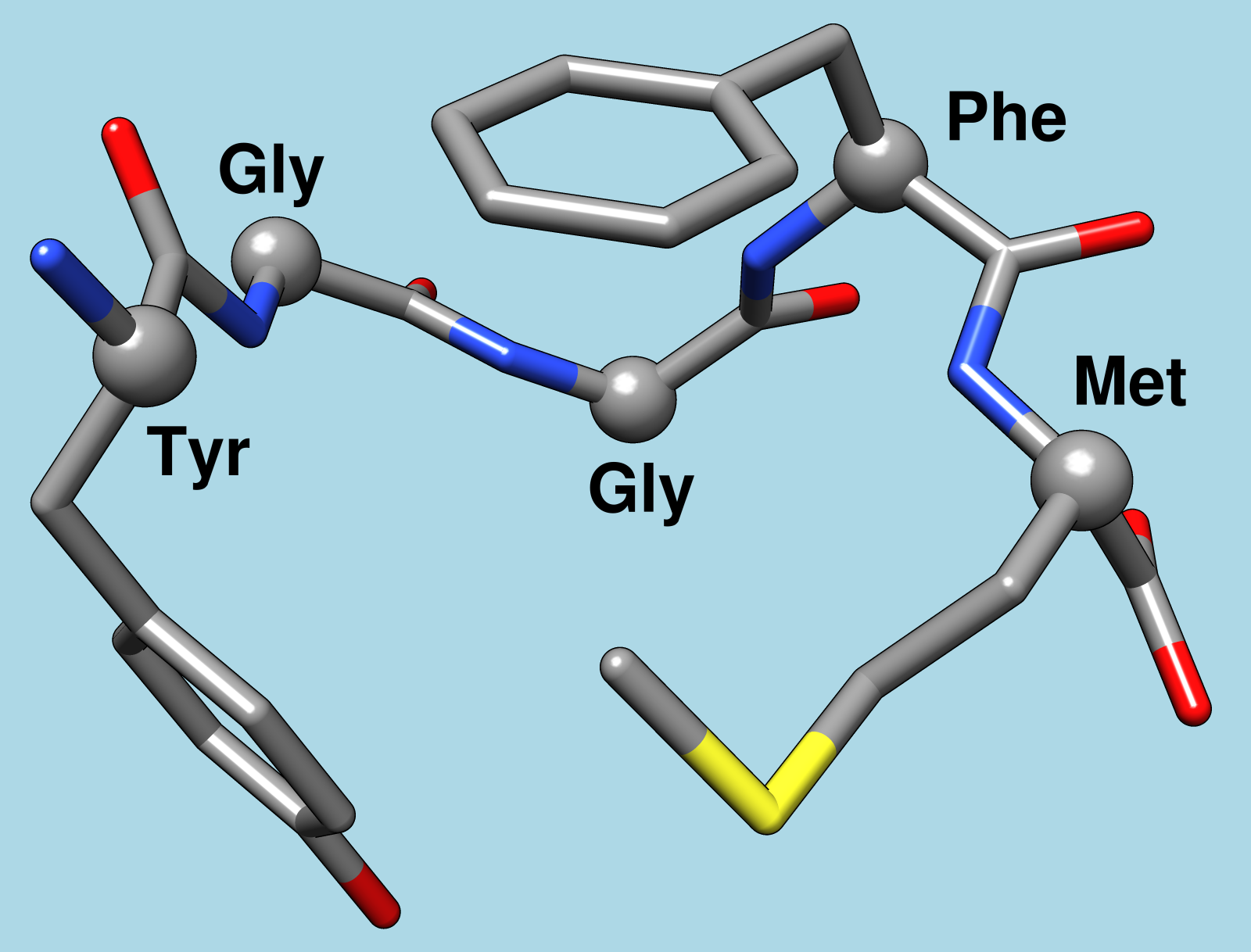 Structure of Met-enkephalin, image generated with UCSF Chimera. The first structure of the ensemble in PDB ID 1plx is shown, with alpha-carbons shown as balls and labeled by amino acid residue. Atoms are color-coded by element and hydrogens have been hidden for clarity.